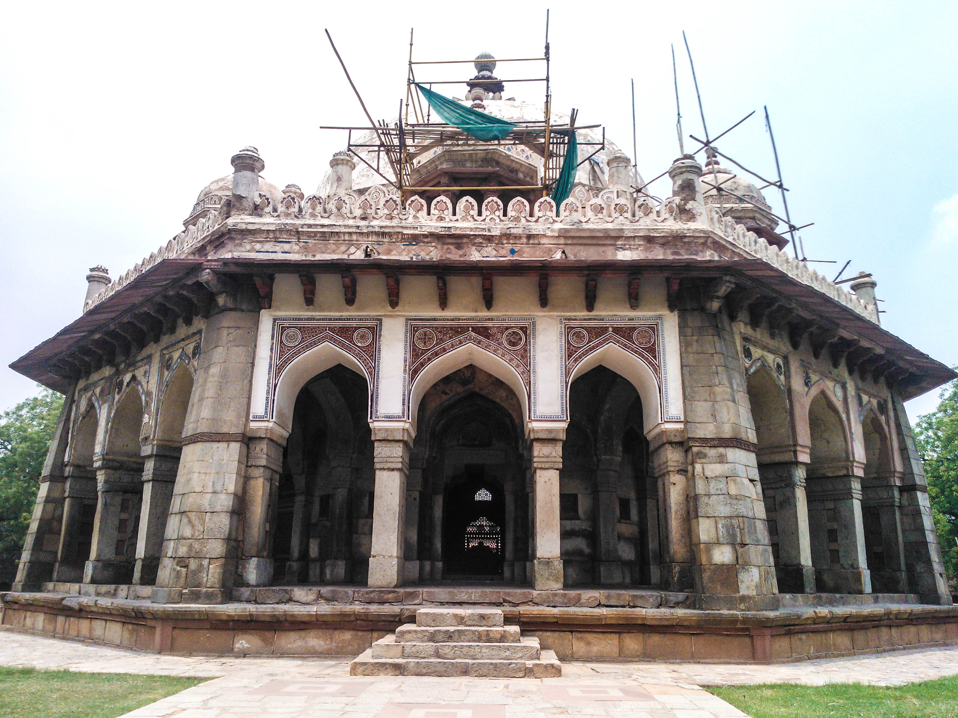 Tomb of Isa Khan under restoration